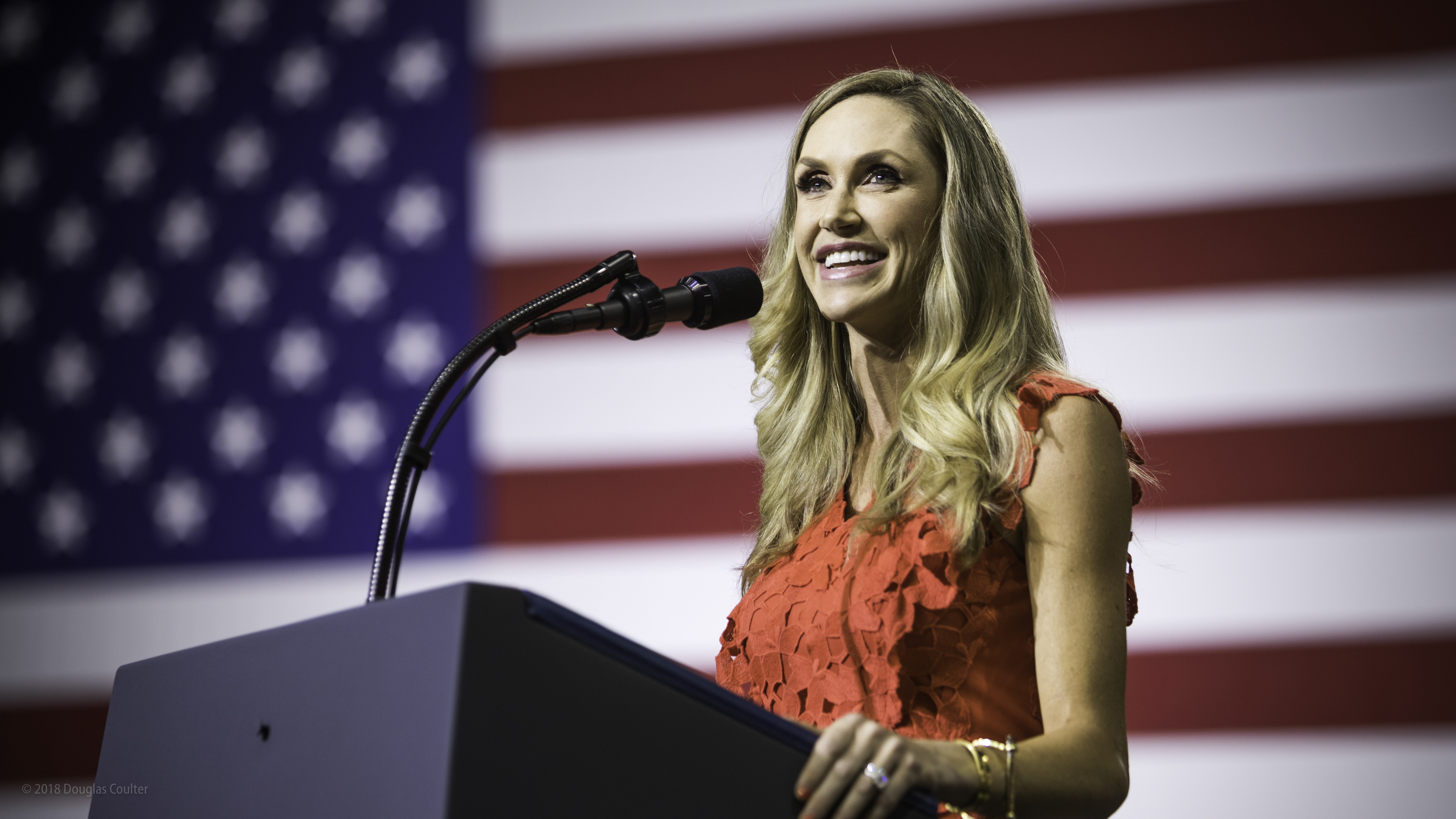 Lara Trump 06-20-2018 Duluth, MN